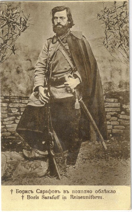 Boris Sarafov (1842-1907)